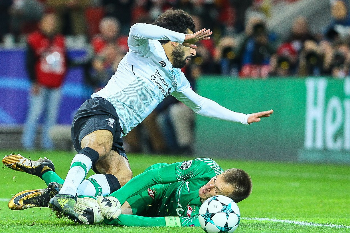 Mohamed Salah, Artem Rebrov